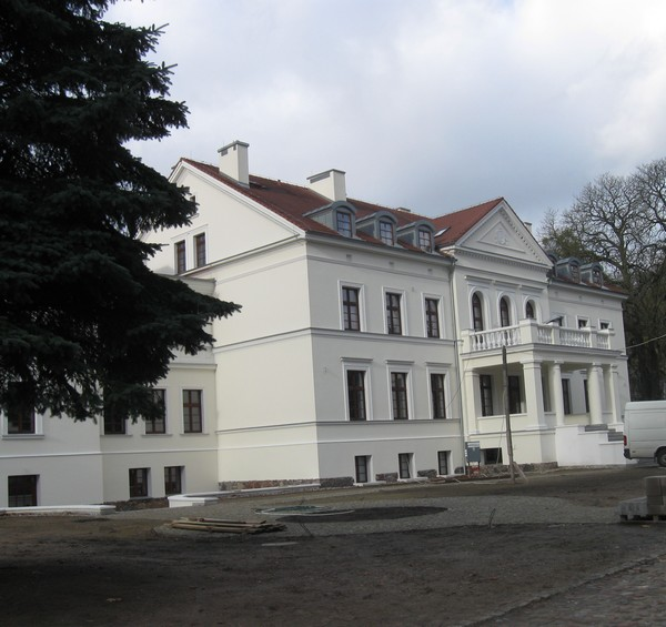 Palace in Rulewo, Poland